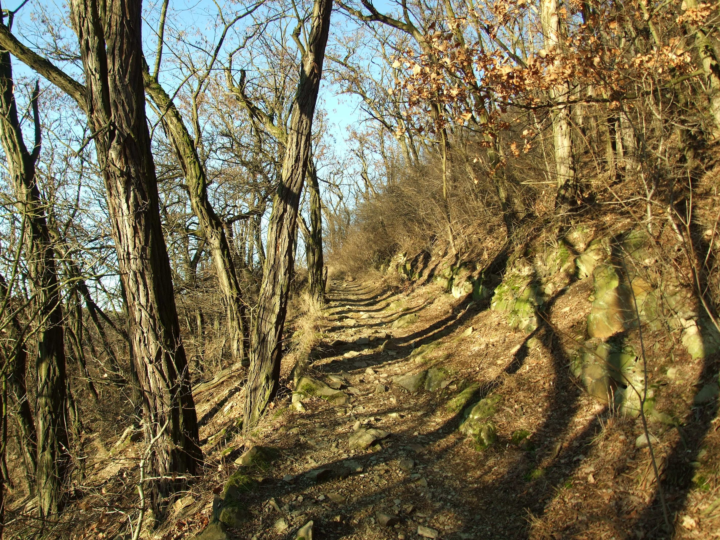 A path to Vizerka lookout point in Divoká Šárka park in Prague-Vokovice, Prague, CZhelp